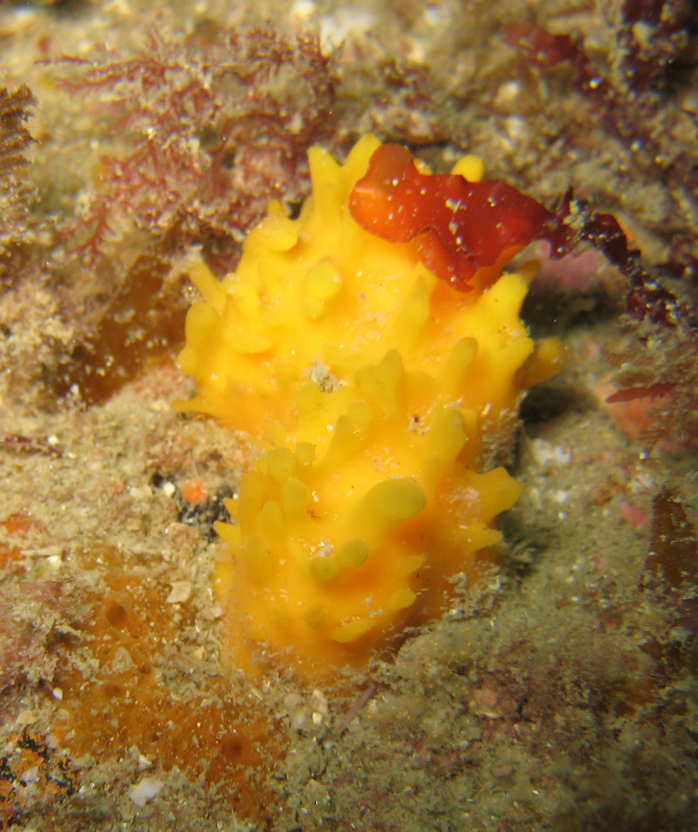 Yellow tit-sponge (Polymastia boletiformis) à Saint-Quay-Portrieux